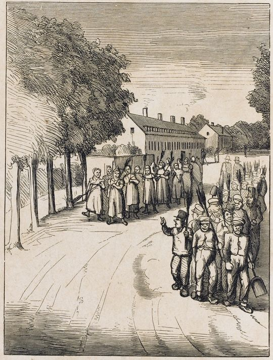 Residents at Ladegården (a poorhouse) at Ladegårdsvej (later Åboulevard) with brooms on the way to town to Work in Copenhagen, Denmark